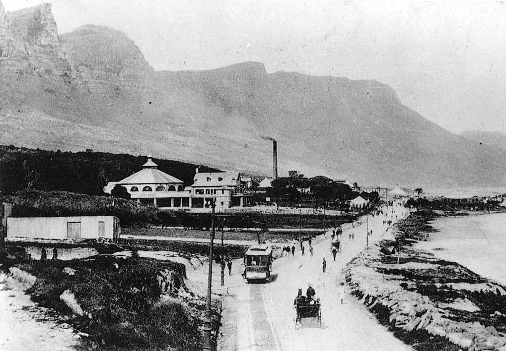 Victoria Road, Camps Bay, near Cape Town, South Africa.